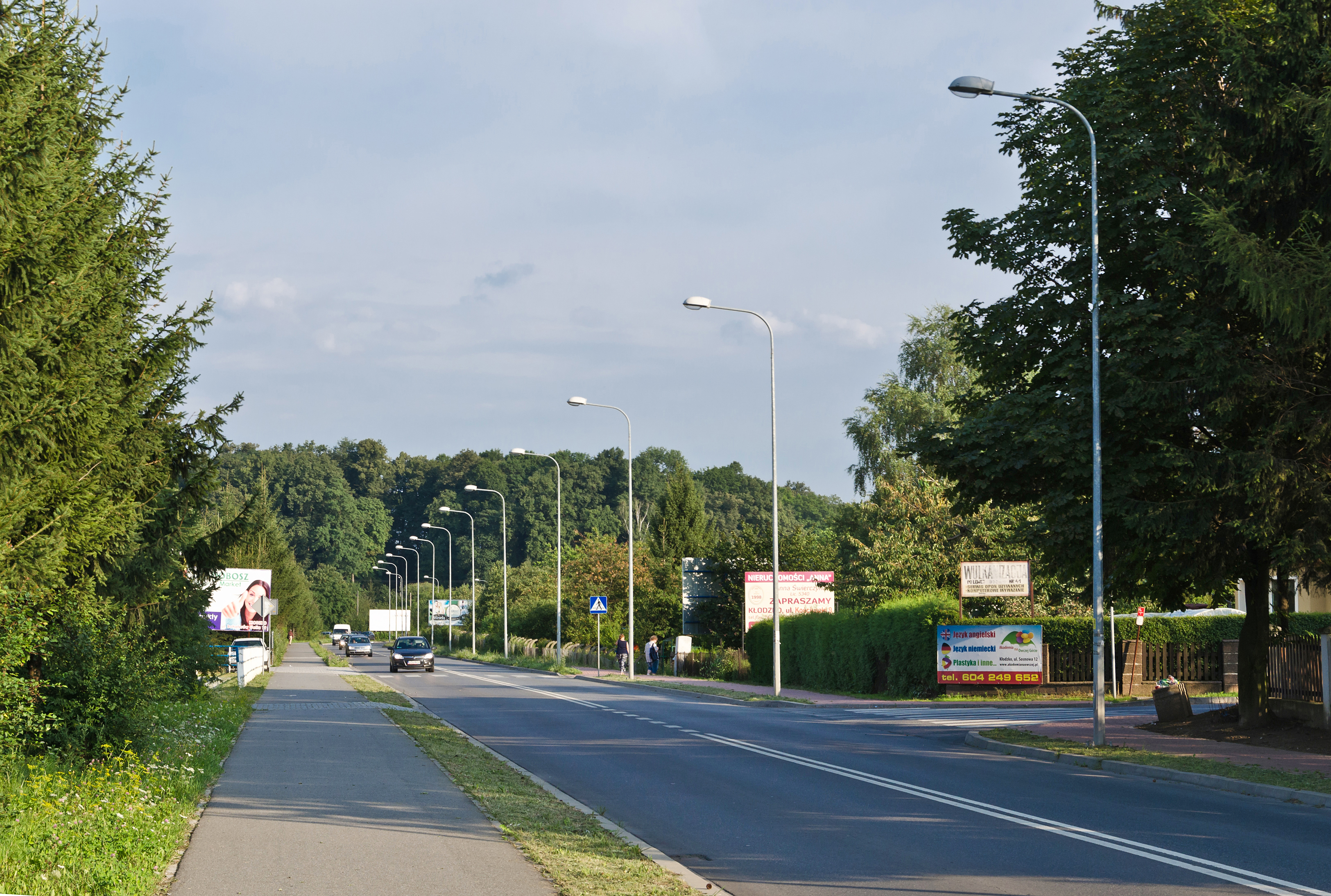 Noworudzka Street in Kłodzko